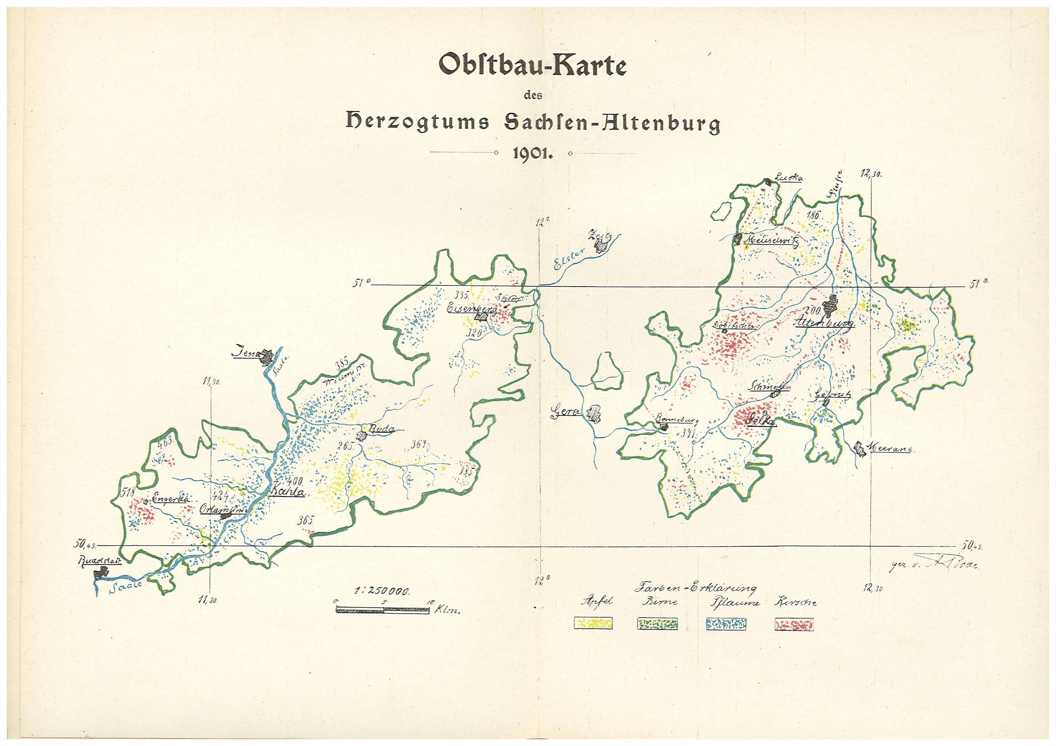 map of Saxe-Altenburg, showing distribution of different fruit trees (apple, pear, plum, cherry)